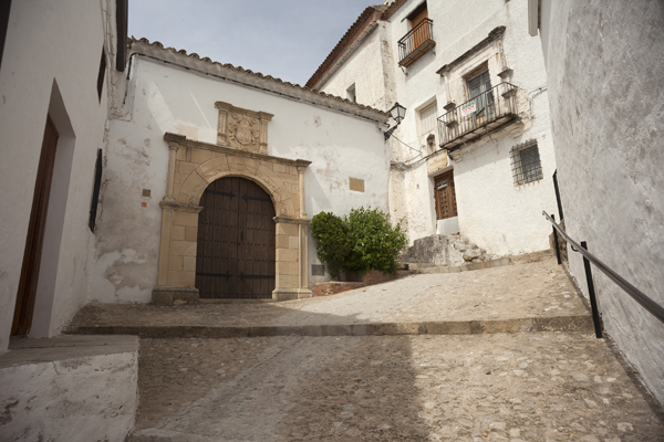 Segura de la Sierra, Andalucía, Jaén, Spain; ; ref PM_091705_E_Segura_de_la_Sierra; ; Photographer: Paul M.R. Maeyaert; © Paul M.R. Maeyaert; ; Cultural heritage; Europeana; Europe/Spain/Segura de la Sierra